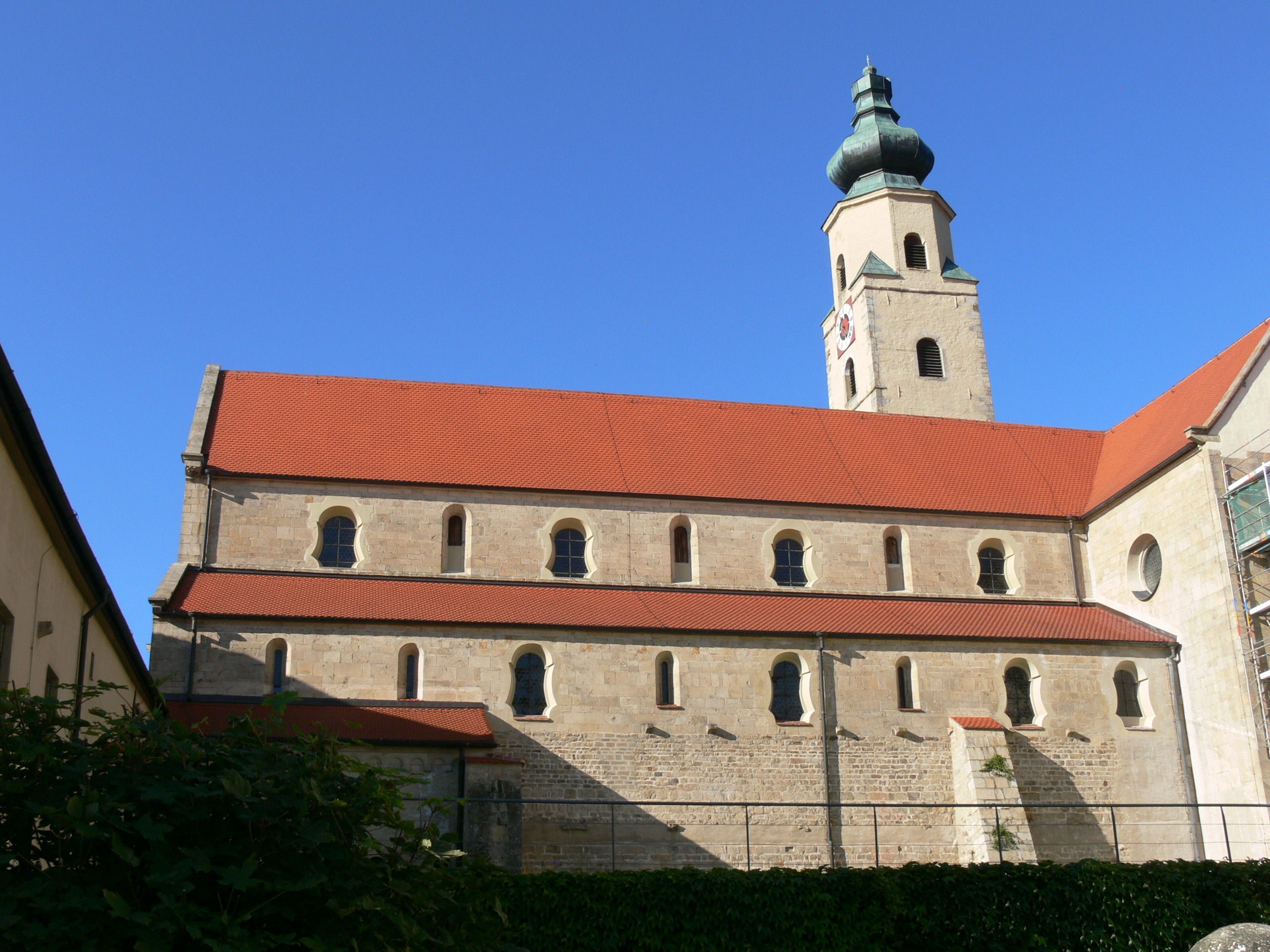 Monastery church of Mary Assumption in Windberg ( Lower Bavaria ). View from southern side.